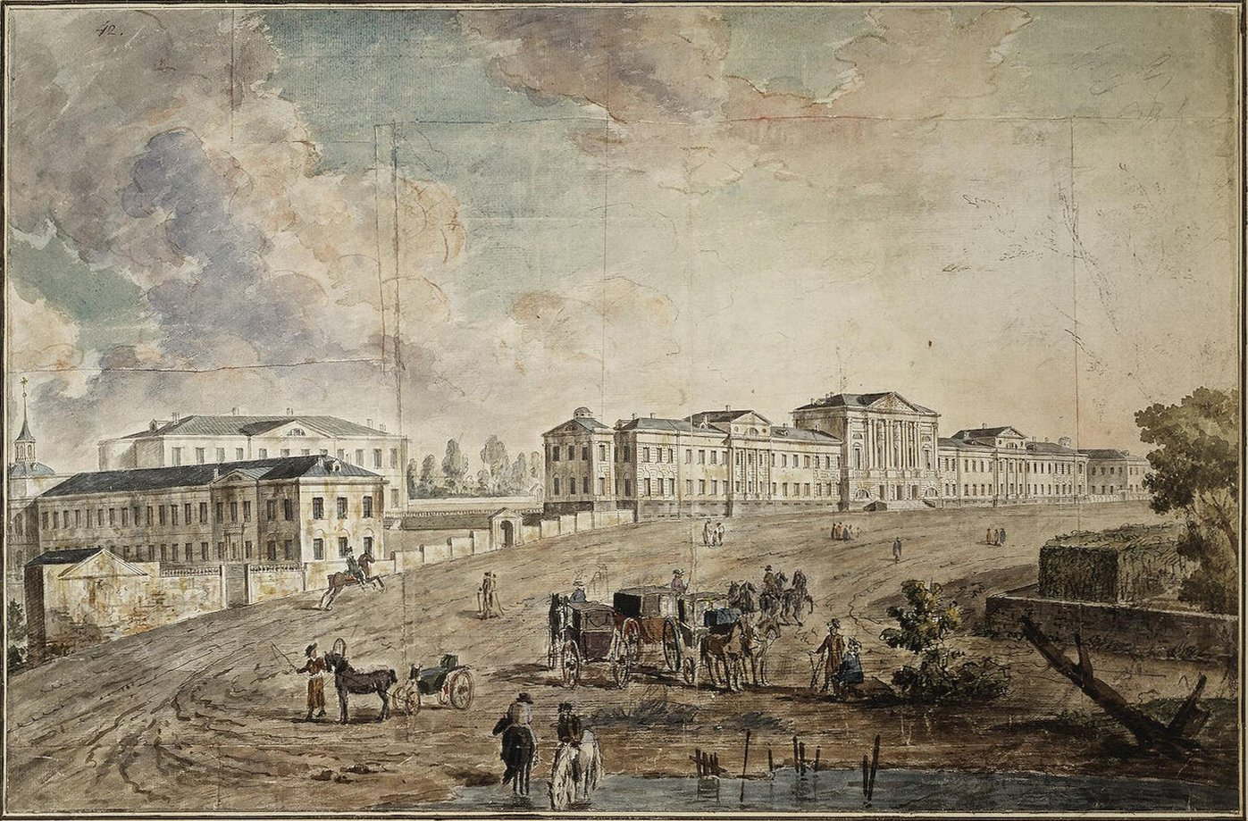 Military Hospital at Lefortovo